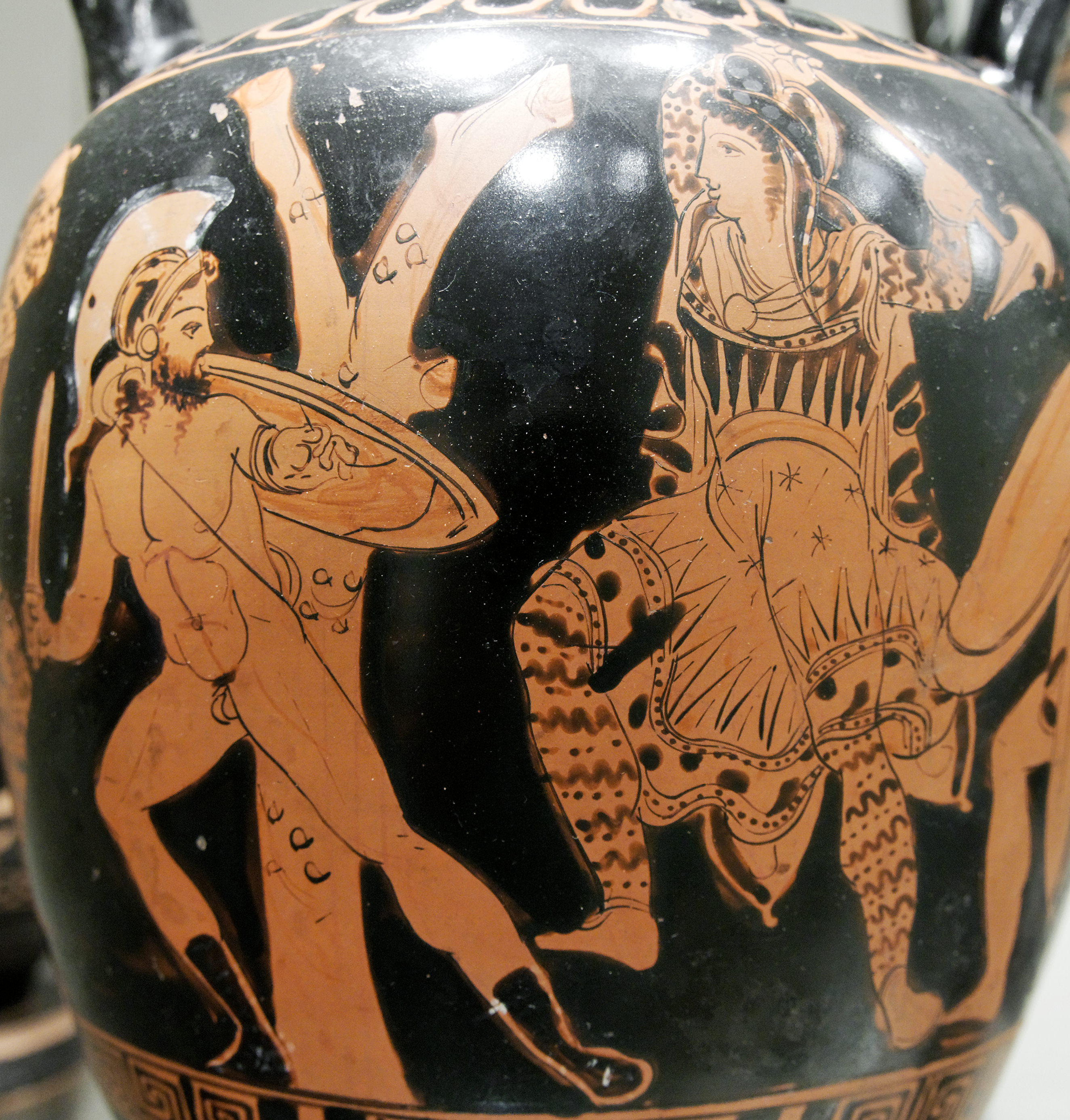 Amazonomachy. Side A of an Attic red-figure neck-amphora with twisted handles.